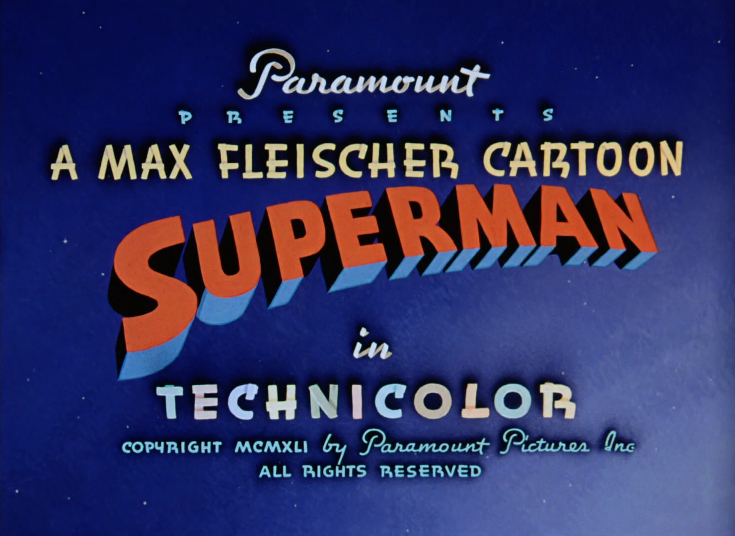 Title screenshot from the 1941 animated short Superman.